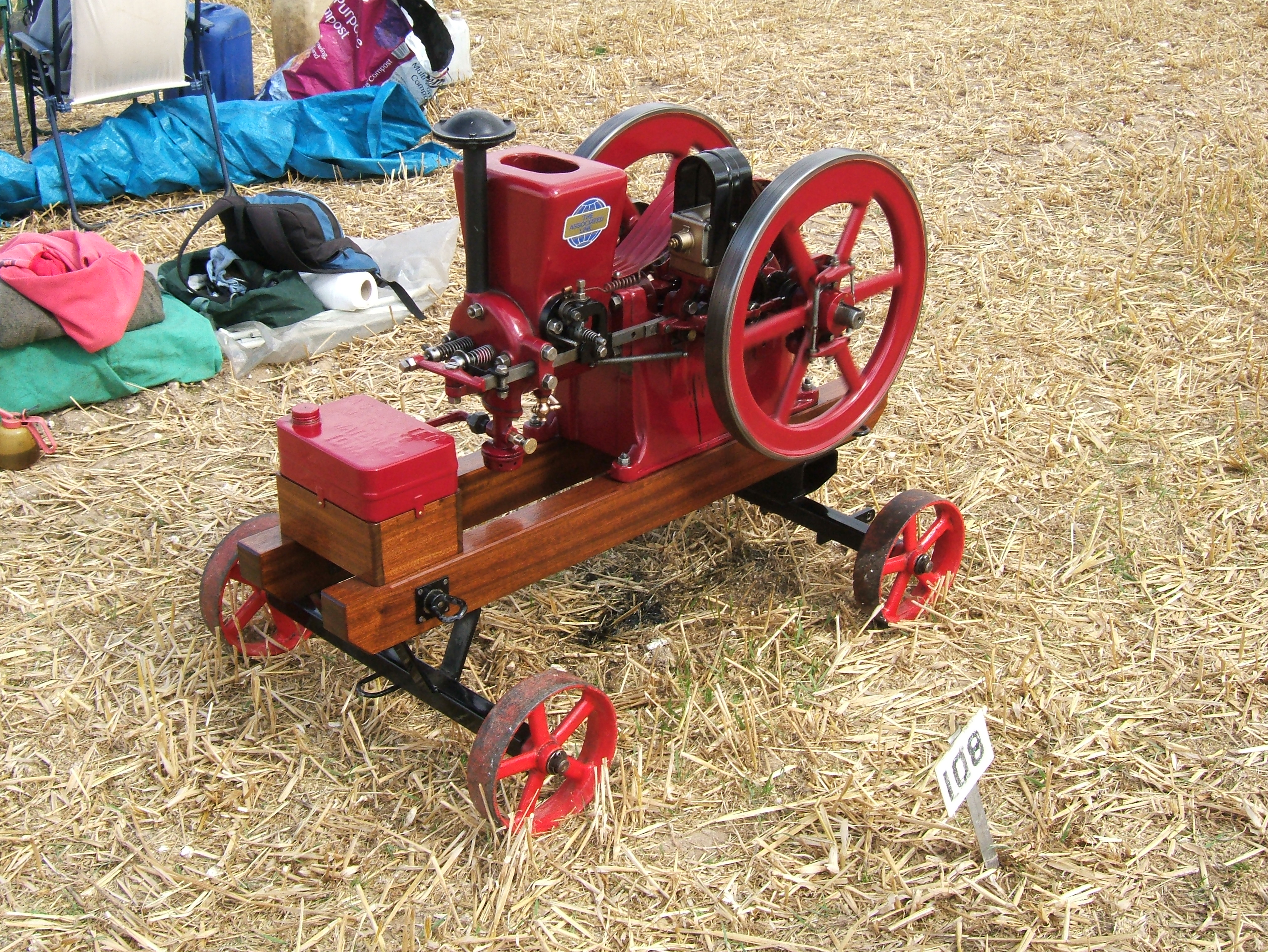 1917 Amanco 'Hired Man' 2 1/4hp hit-and-miss engine in the stationary engines section at the Great Dorset Steam Fair